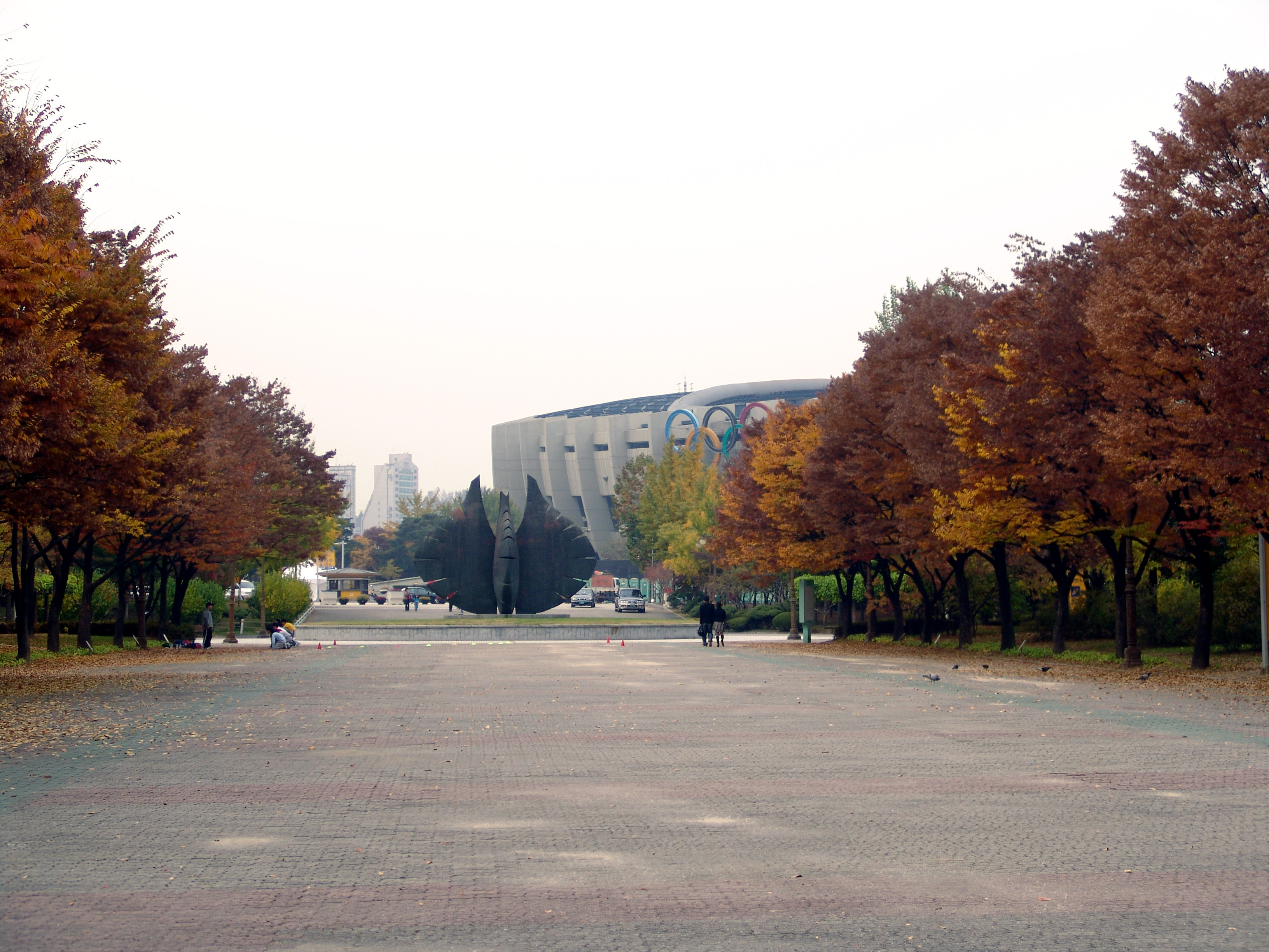 Jamsil Stadium Events held Seoul Olympic(1988) and Asian Game(1986)